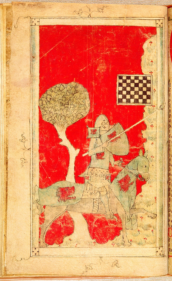 Illustration from the manuscript Gawain and the flying chessboard (14th century ill. manuscript from the Special Collections of Leiden University Libary